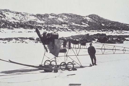 The Air tractor - the Vickers REP monoplane was damaged in Australia and never flew in Antarctica, however was used minus its mainplanes as a tractor.